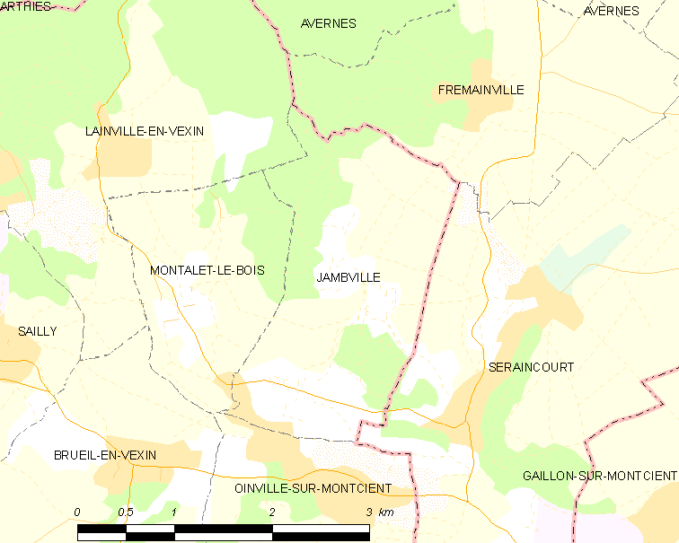 Map of French municipality Jambville